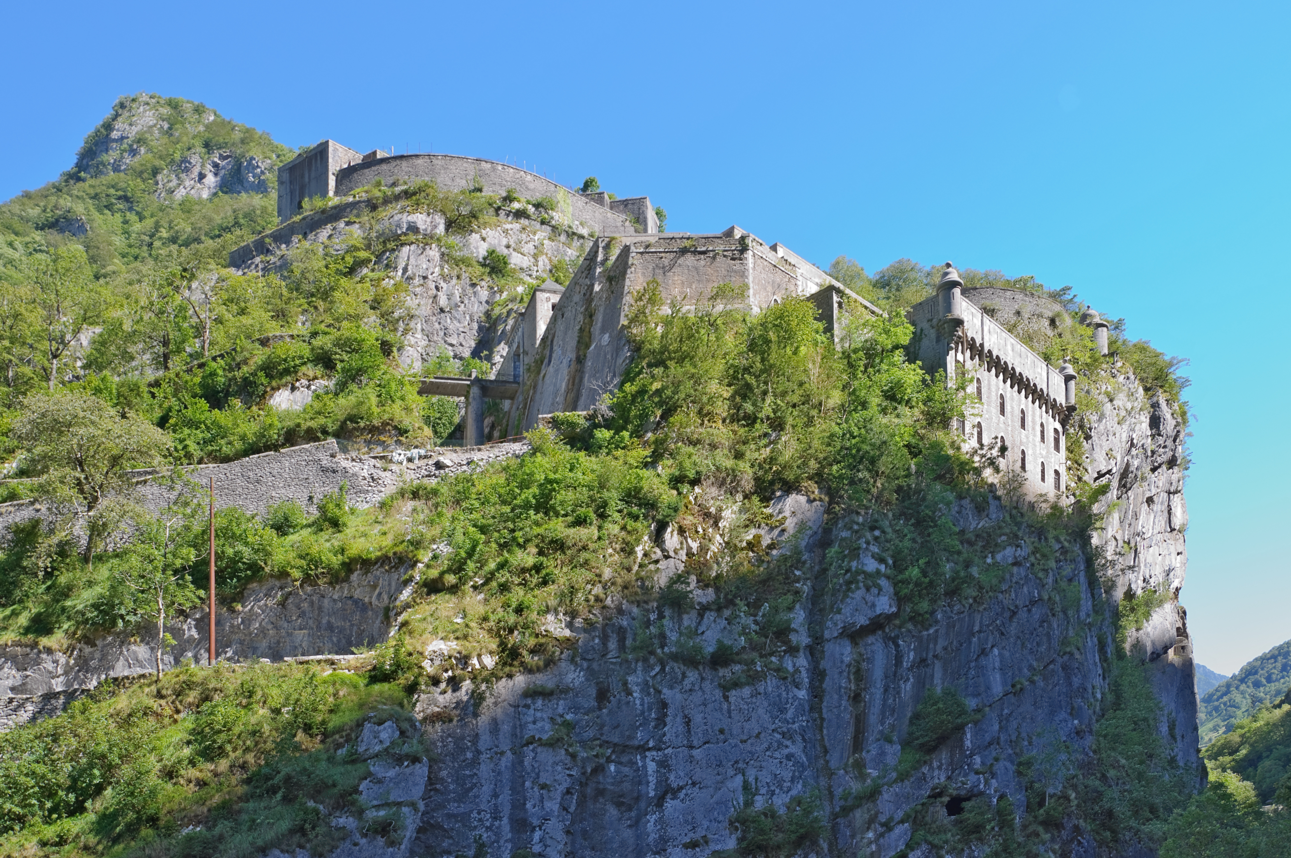 The 'Fort du Portalet' in the French Pyrenees (Pyrénées-Atlantiques, France).